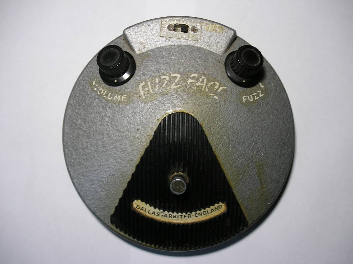 Dallas Arbiter Fuzz Face Effect Pedal, owned by photographer.